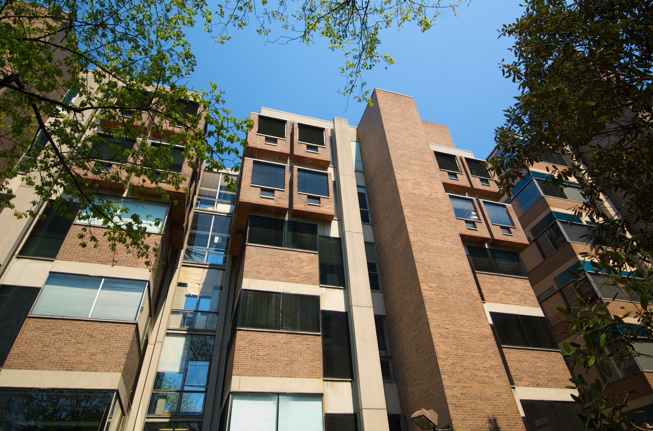 Richards Medical Research Laboratories in Philadelphia, PA